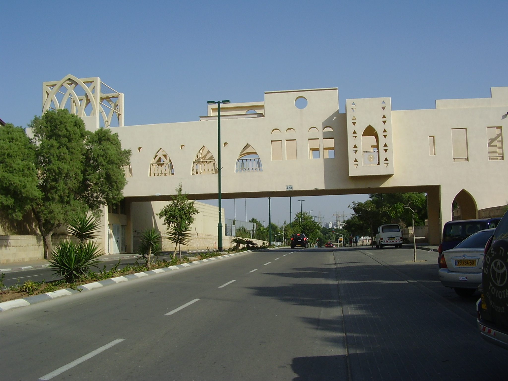 ornamented pedestrian bridge in jaffa